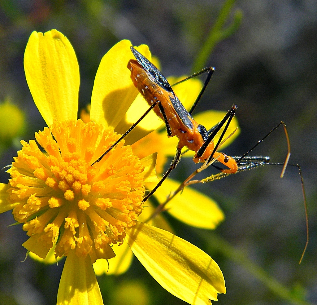 (Fleurs sauvages locales d'embaucher un garde de sécurité!) After several recent incidents of petal theft, local Balduinas have hired an assassin bug to provide security! By the way, if you are an approaching insect, how do you NOT see this guy waiting for you? These are called the "Milkweed assassin bug" as they mimic milkweed bugs. They can bite if handled.